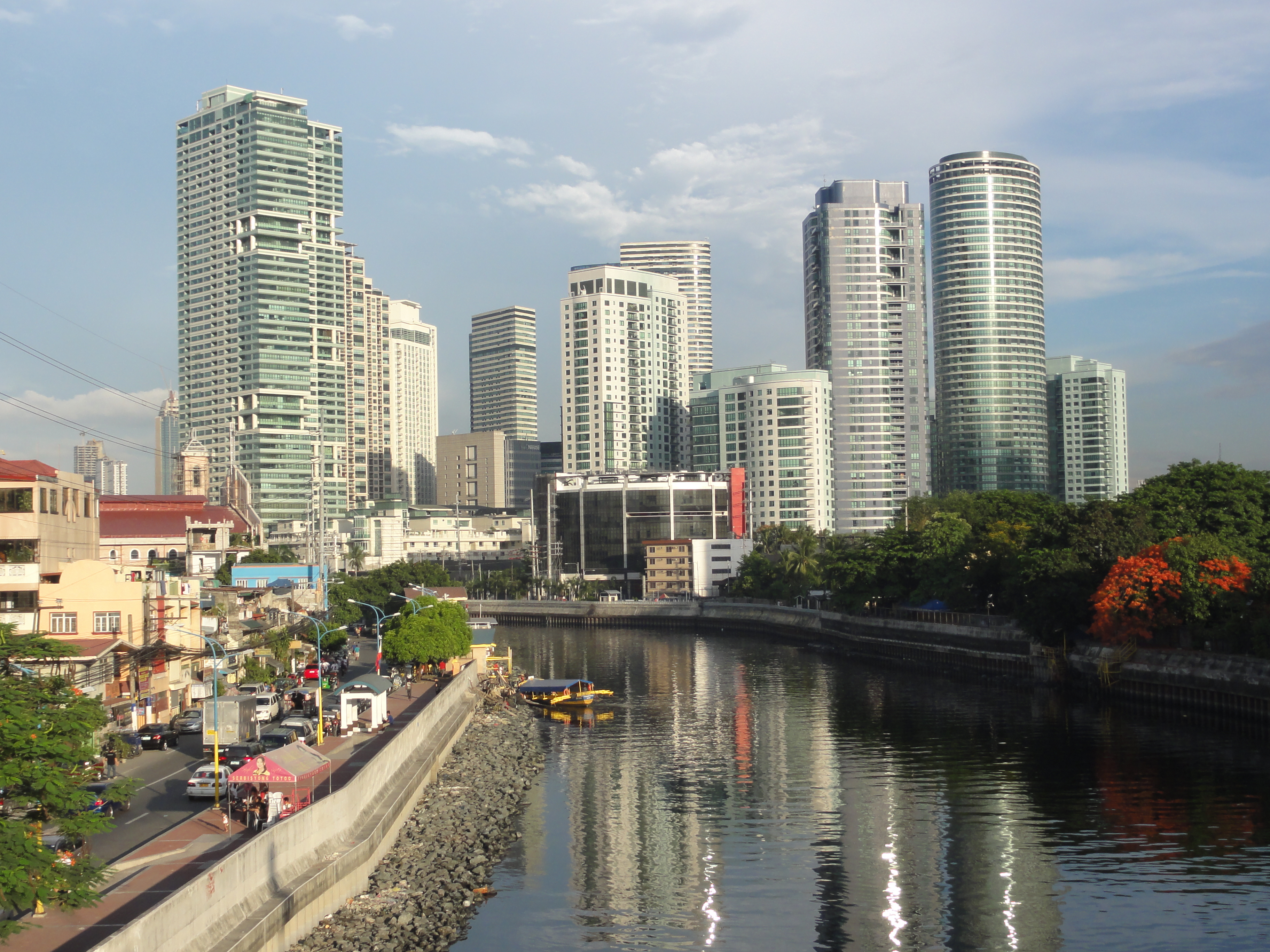 View of Rockwell Center along Pasig River in Makati City